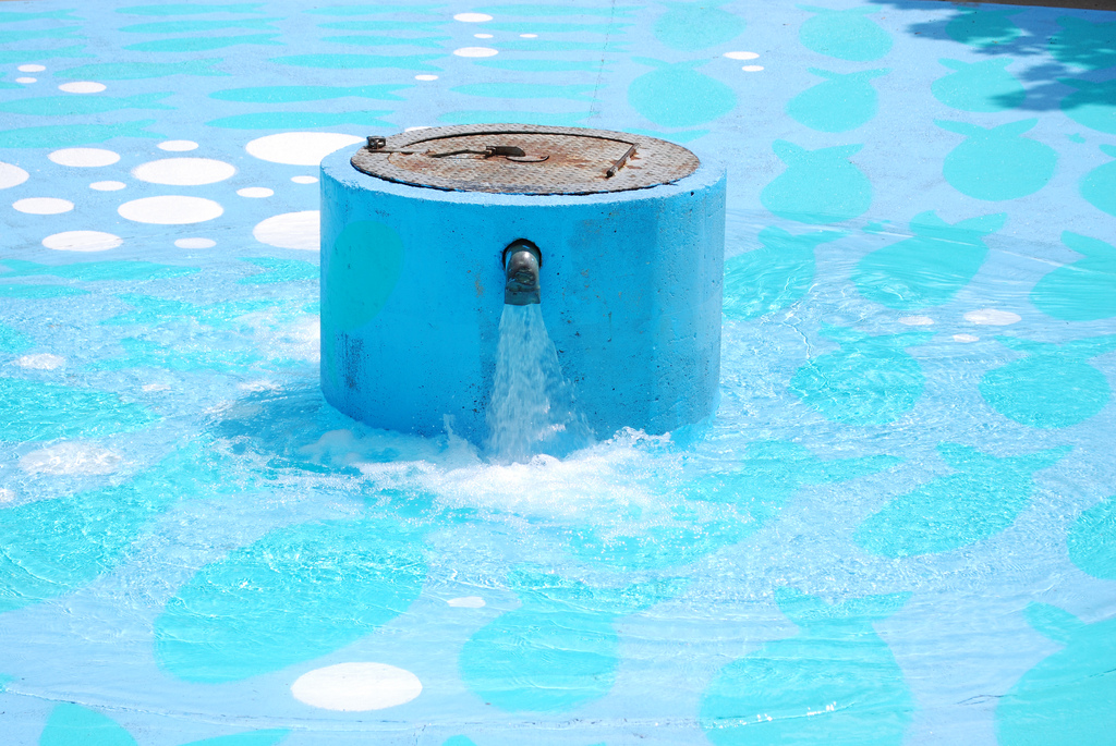 Wading pool at Healey Willan Park in Toronto